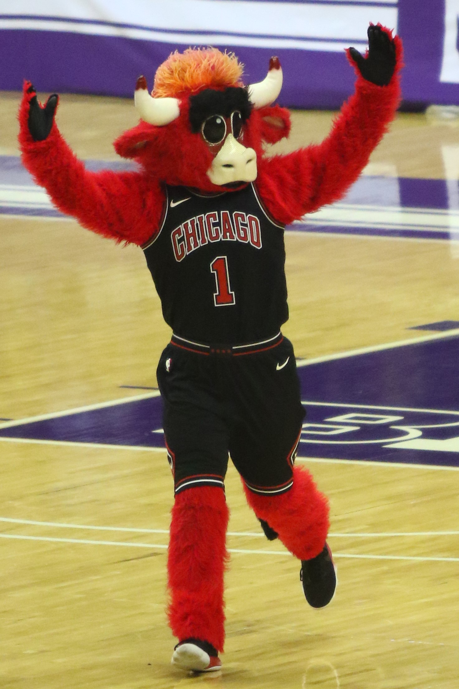 Benny the Bull at a game between the w:2017–18 Michigan Wolverines men's basketball team and the w:2017–18 Northwestern Wildcats men's basketball team at Allstate Arena